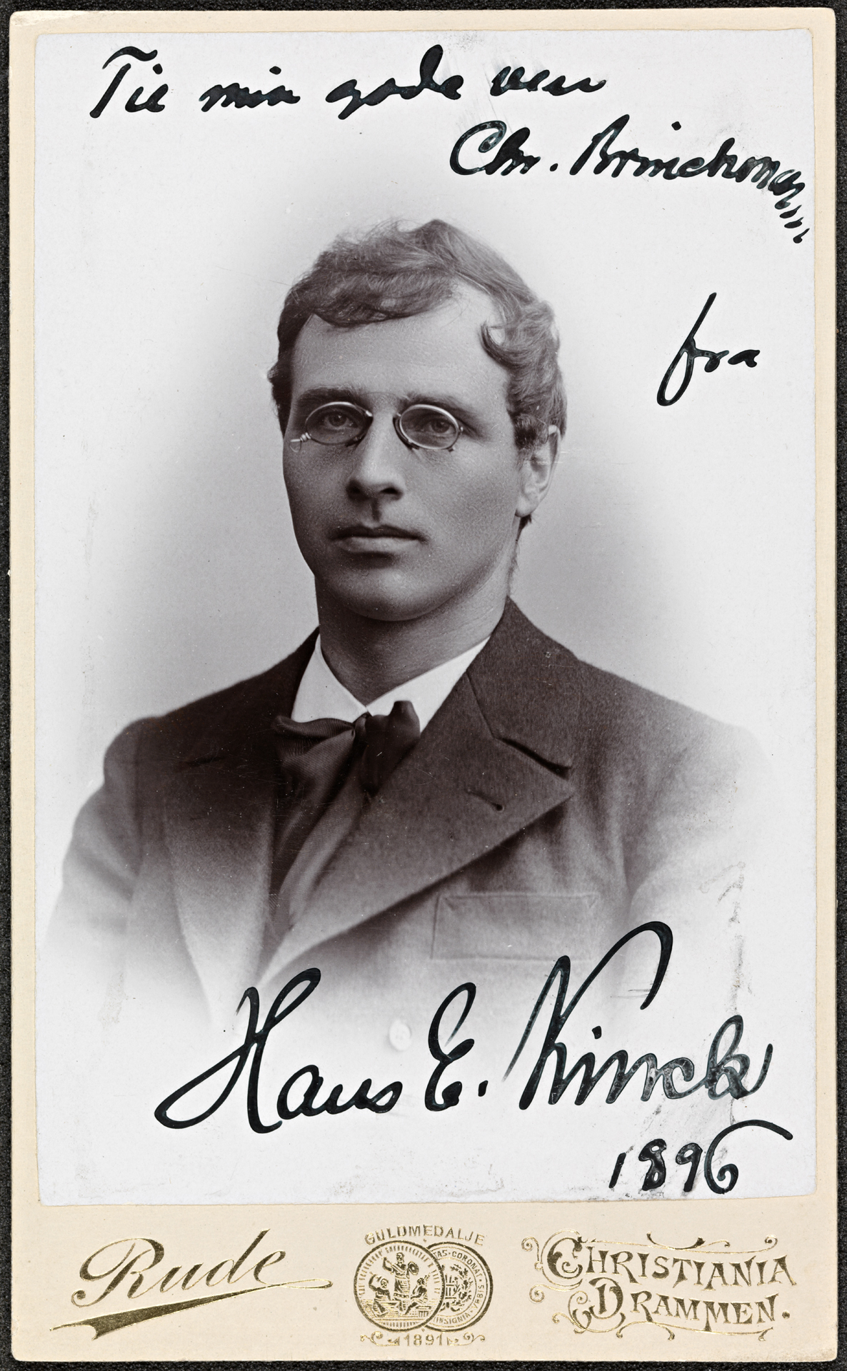 Tittel / Title: Portrett av Hans Ernst Kinck (1865-1926) Motiv / Motif: Visittkort. Dedikasjon: "Til min gode ven Chr. Brinchmann fra Hans E. Kinck 1896" Dato / Date: ca 1896 Fotograf / Photographer: Rude (Christiania) Sted / Place: Oslo Eier / Owner Institution: Nasjonalbiblioteket / National Library of Norway Lenke / Link: Bildesignatur / Image Number: blds_04879